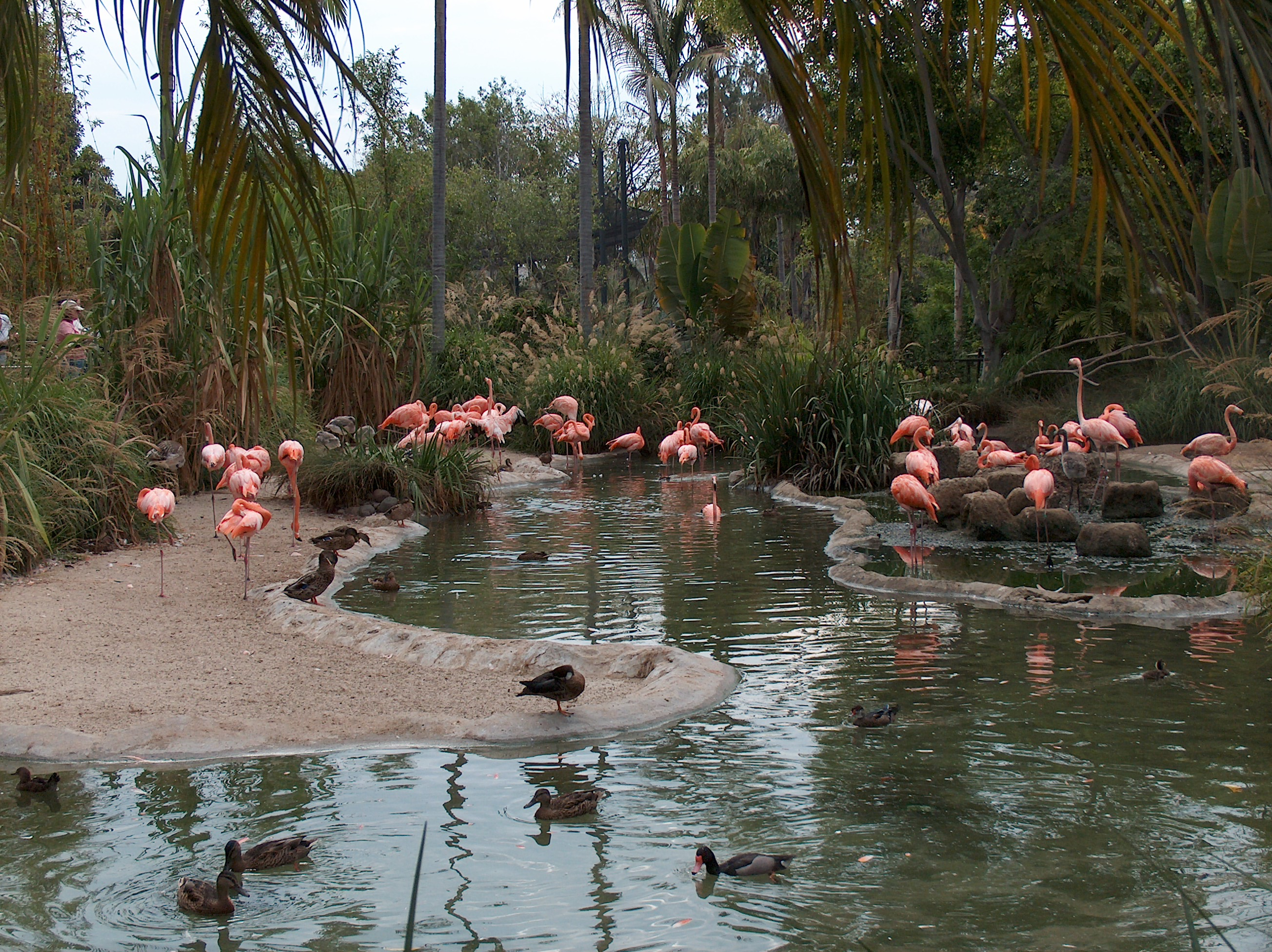 Flamingos at the San Diego Zoo. Photo taken by User:Mike R on 8 August, 2005.